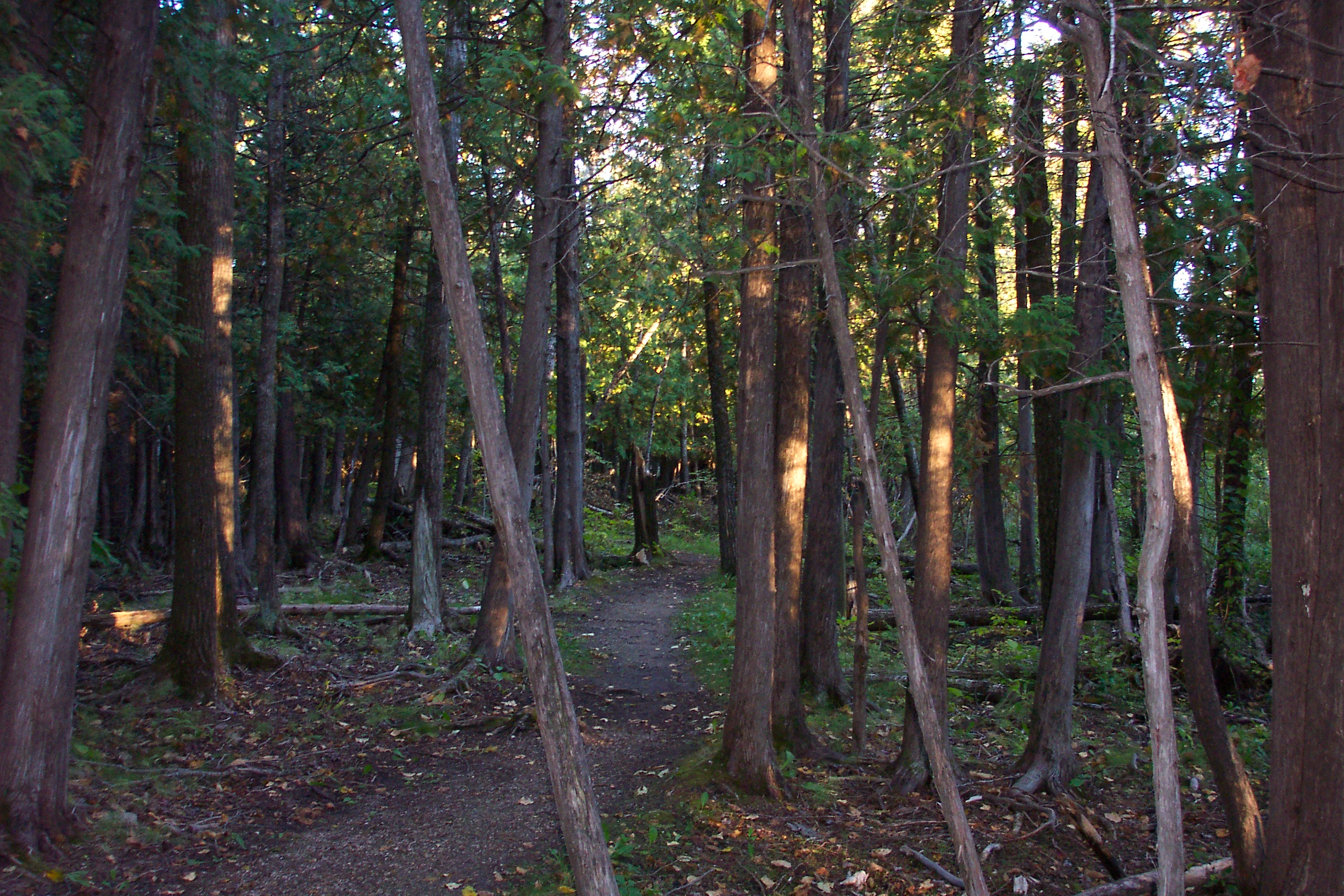 Photo of cedar bog trail in Birds Hill Provincial Park, Manitoba.